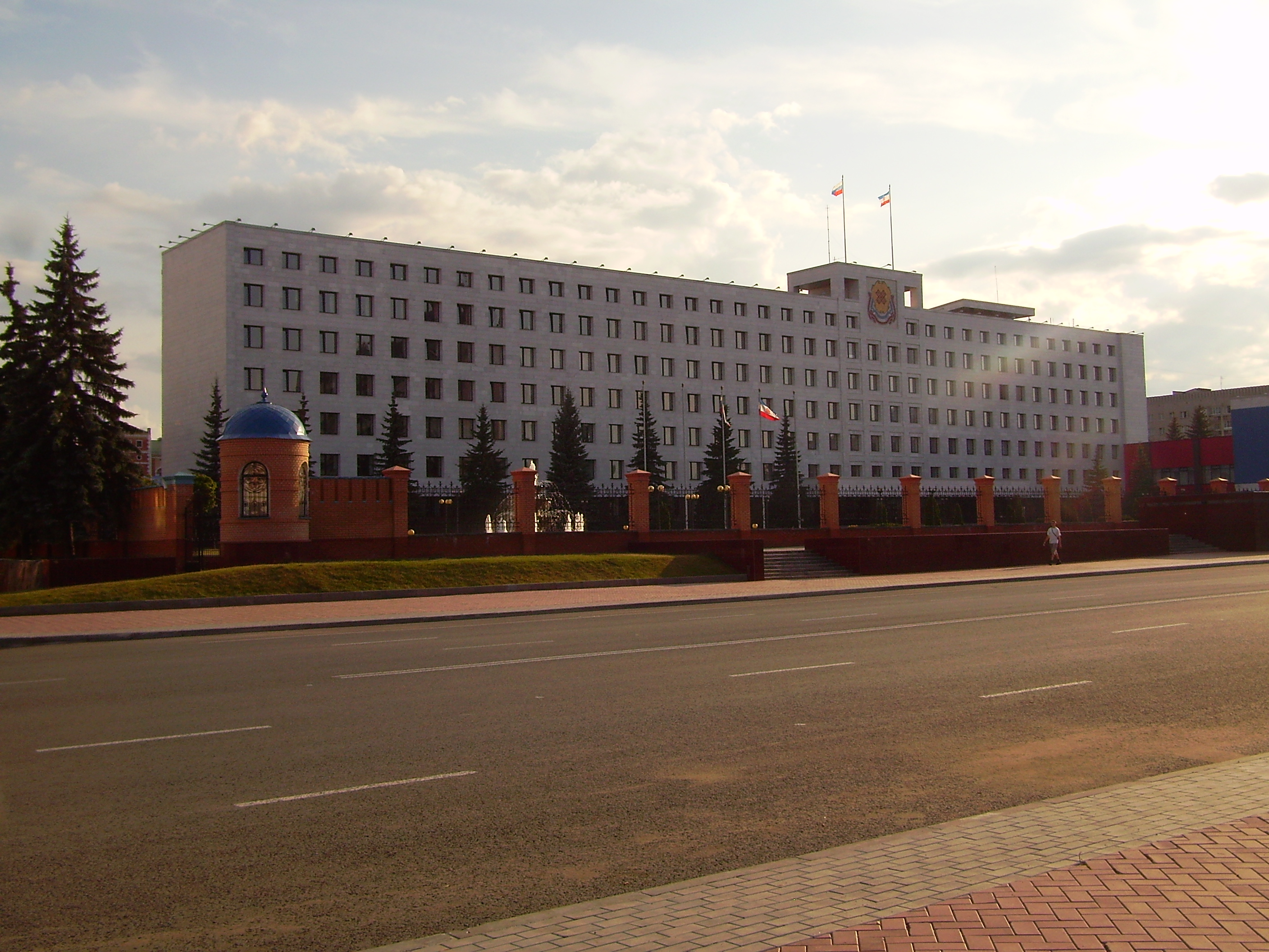 Building of the government of republic of Mary El